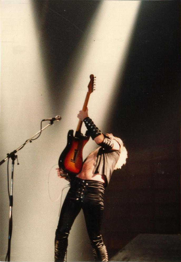 K K Downing (Judas Priest) at Sophia Gardens